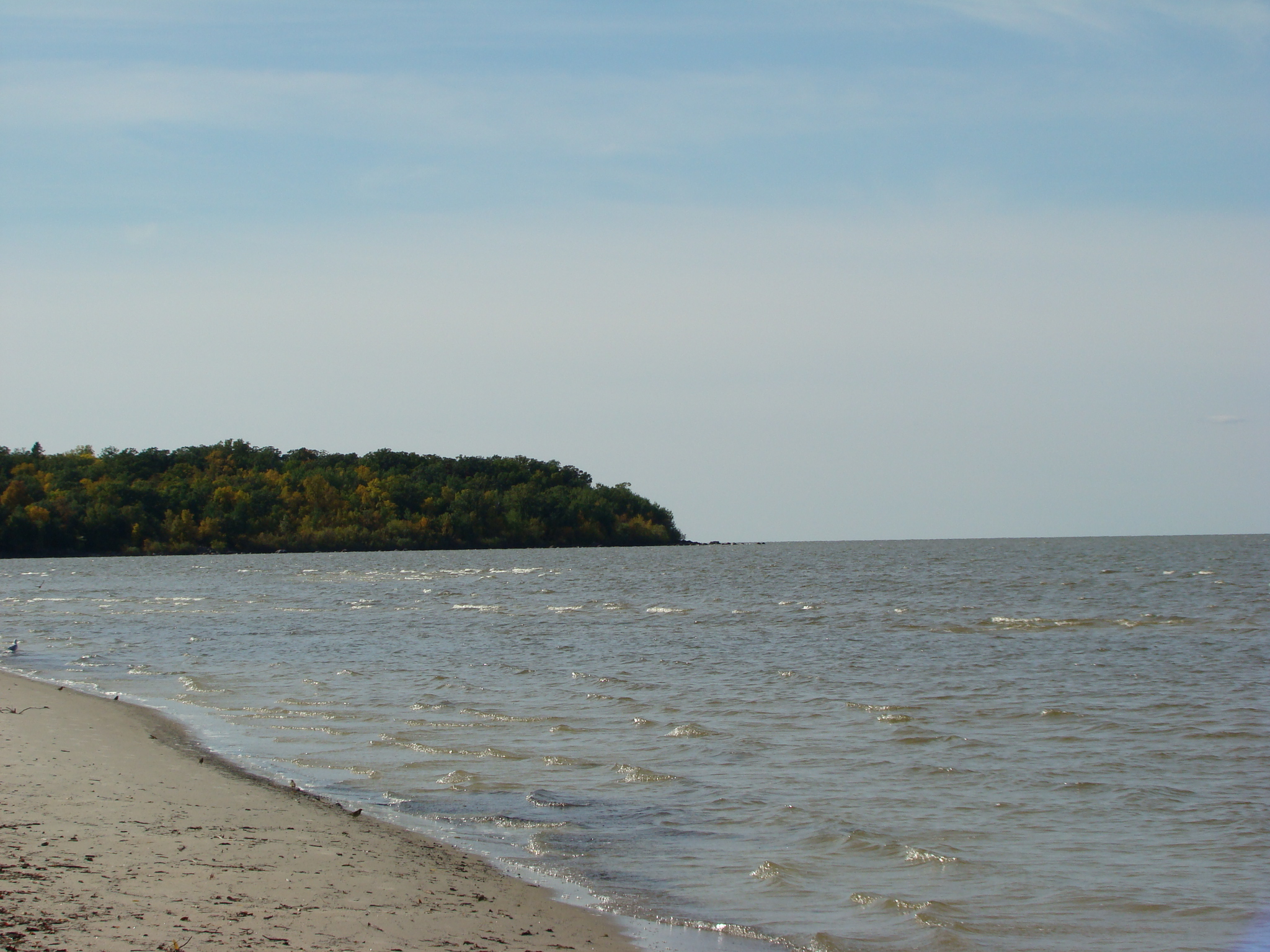 Grand Beach and Provincial Park in Lake Winnipeg in Manitoba Canada